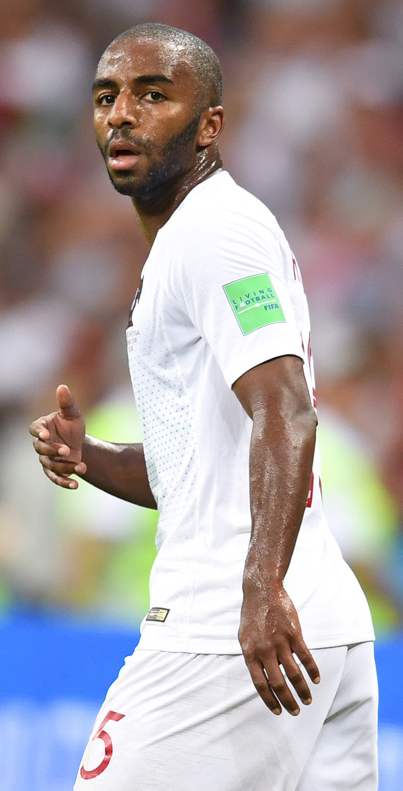 Portuguese footballer Ricardo Pereira on 30 June 2018, during the 2018 FIFA World Cup Round of 16 match between Uruguay and Portugal.